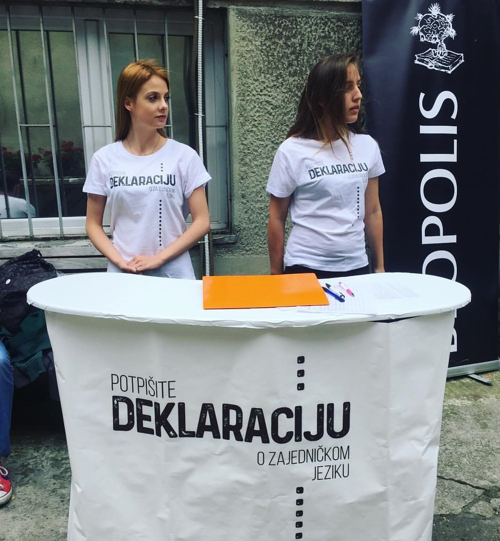 Collecting signatures for the Declaration on the Common Language, Spring 2017 text on the t-shirts and the table bannershenPotpišiteDeklaracijuo zajedničkomjezikuSignthe Declarationon the CommonLanguage